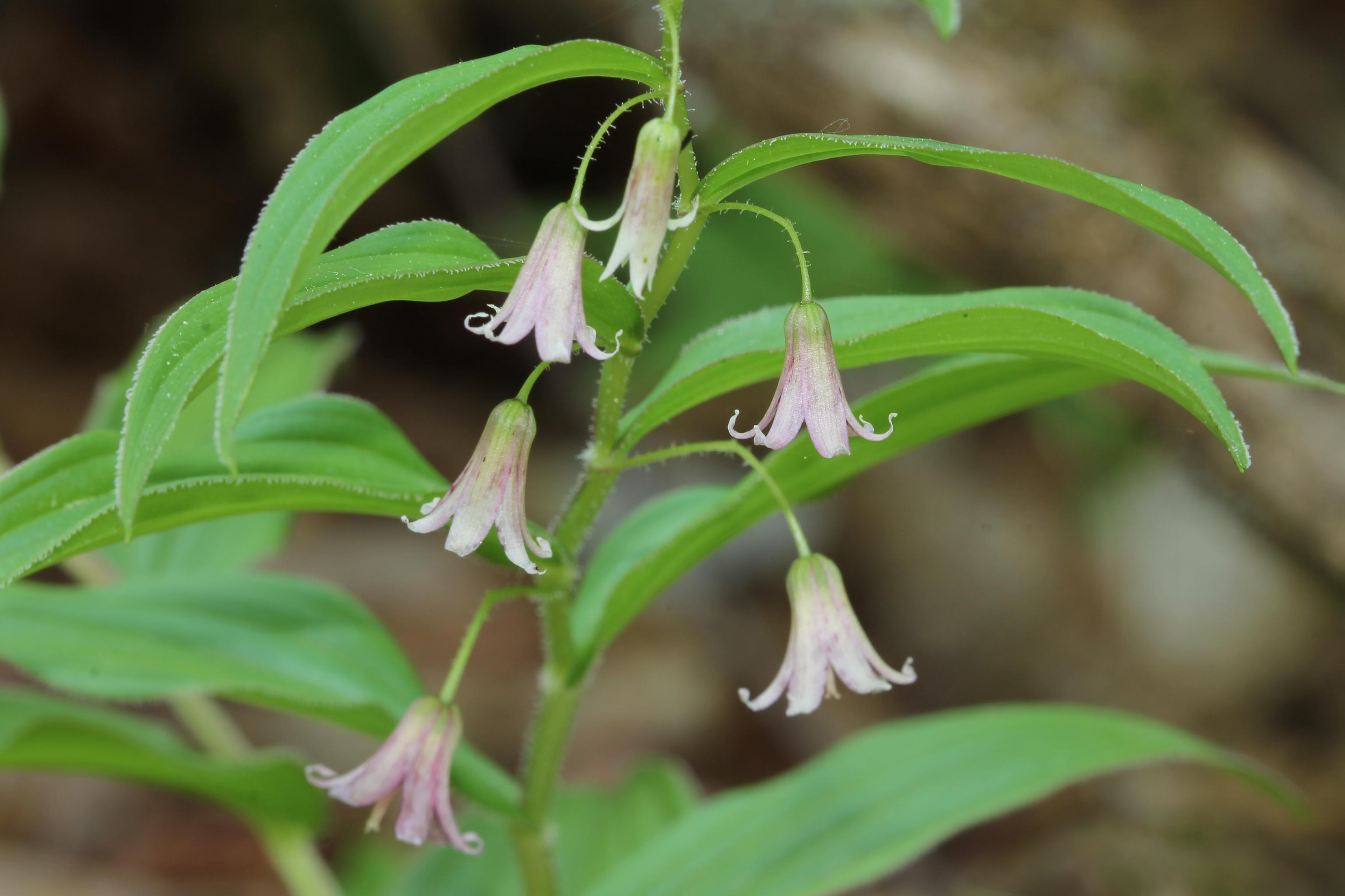 Streptopus lanceolatus (rose twisted-stalk) - Hynes Township, Searchmont, Ontario, Canada